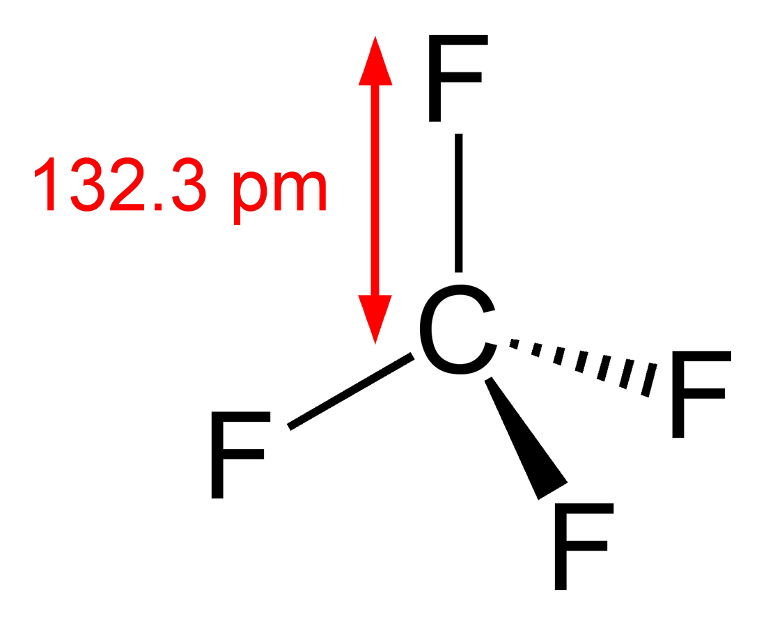 Structure of the carbon tetrafluoride molecule, CF4, with the C−F bond length of 1.323 Å. Data from CRC Handbook of Chemistry and Physics, 88th edition.